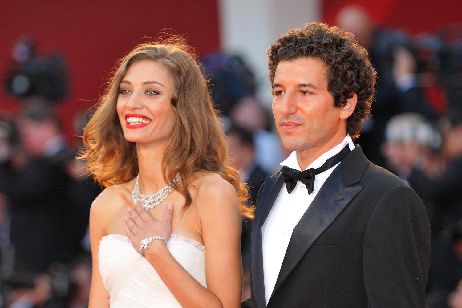 Margareth Madè and Francesco Scianna - 66th Venice International Film Festival.